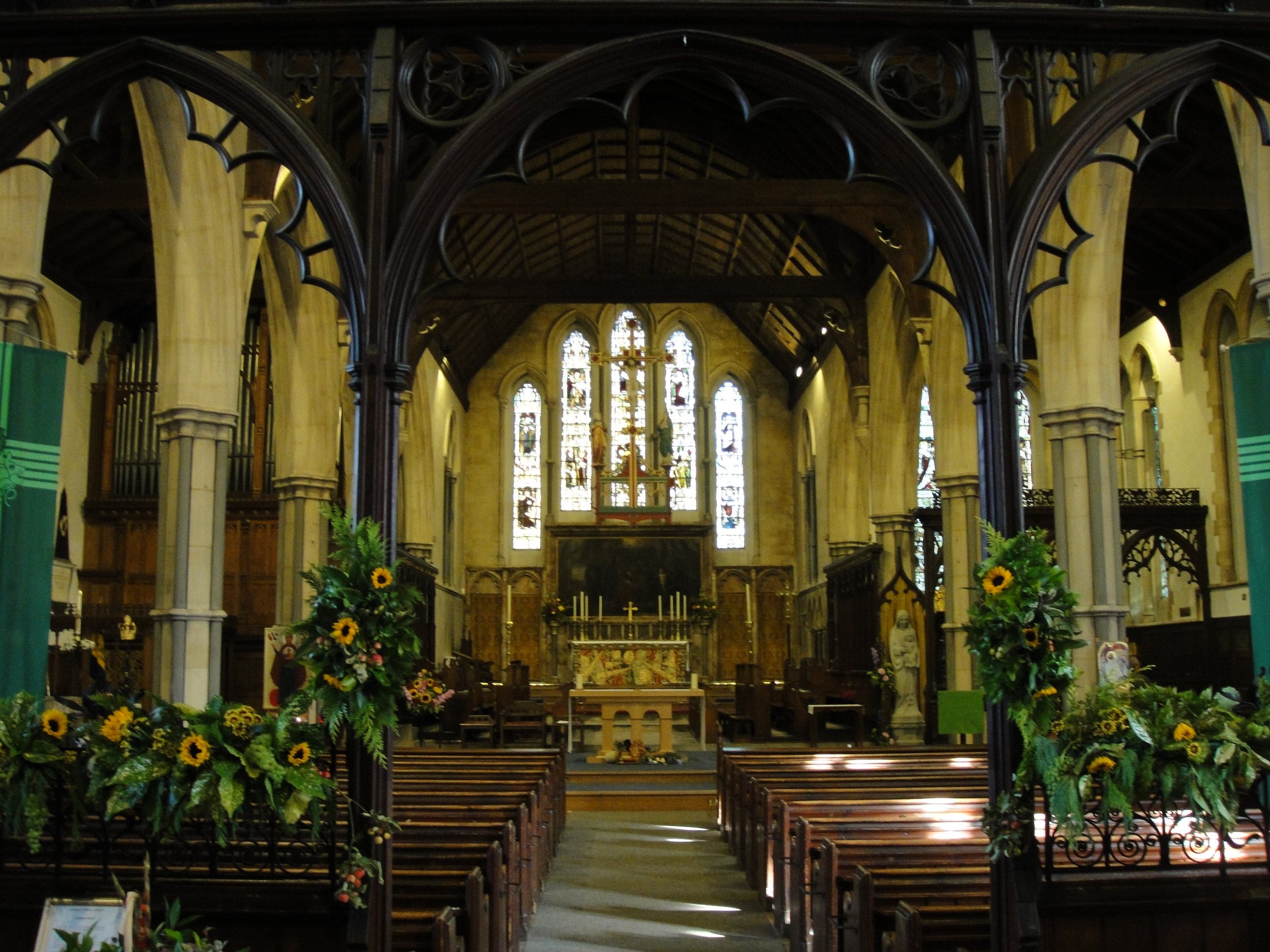 The interior of the Priory church of St Mary in Monmouth, Monmouthshire, Wales.